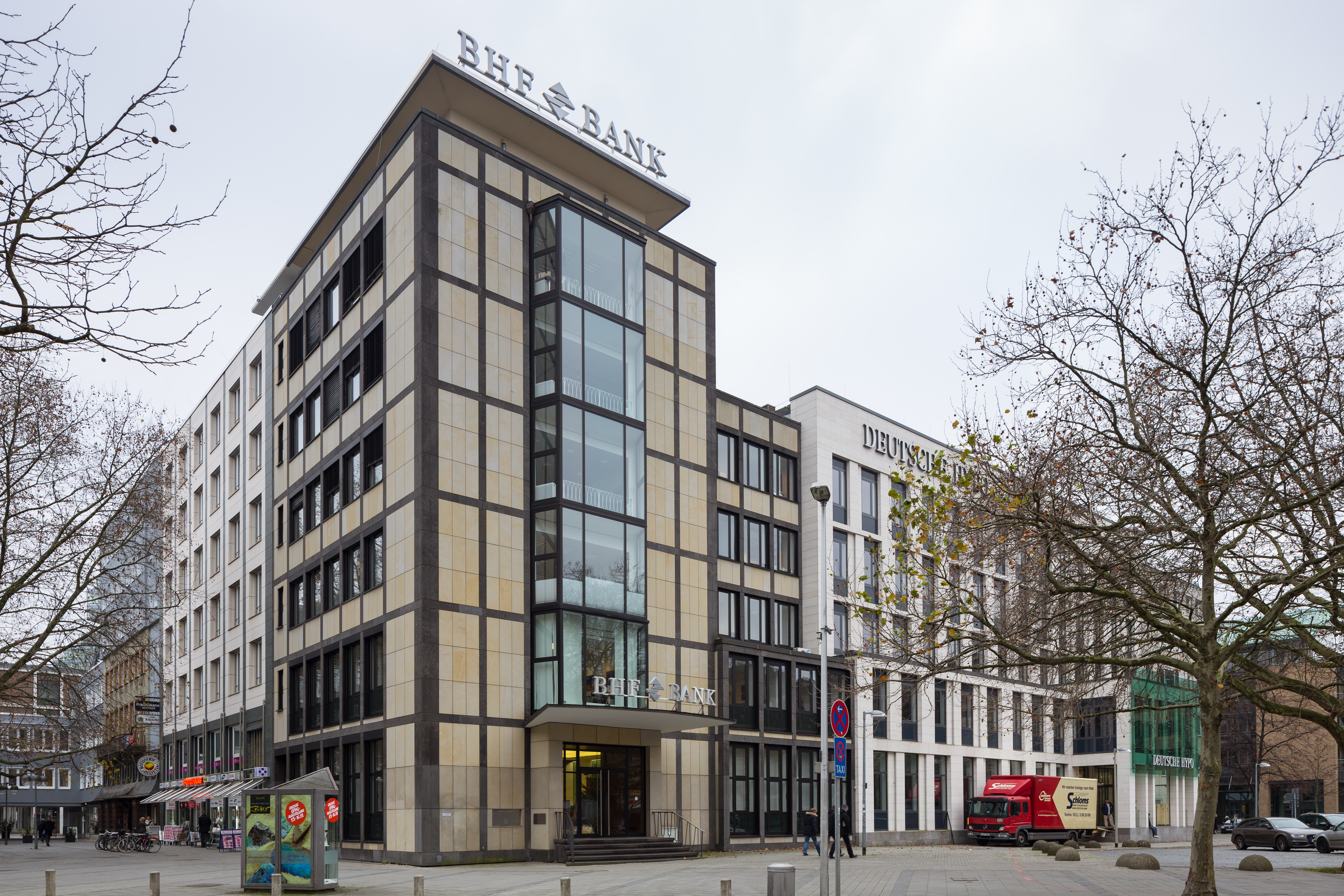 Office building of BHF Bank, located at Georgsplatz no. 9 in central Hannover, Germany.